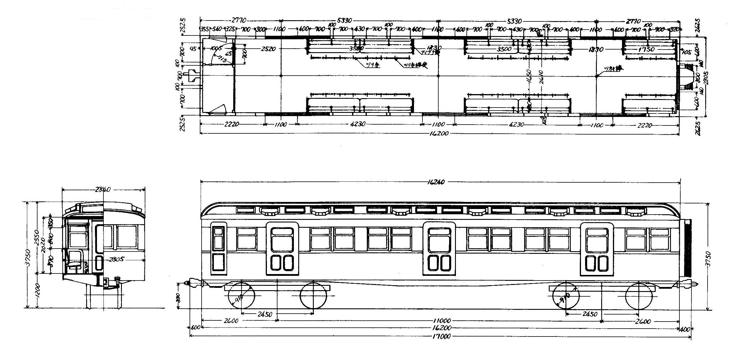 Type drawing of JNR's electric car Kuha16-100 (ex. Moha30)